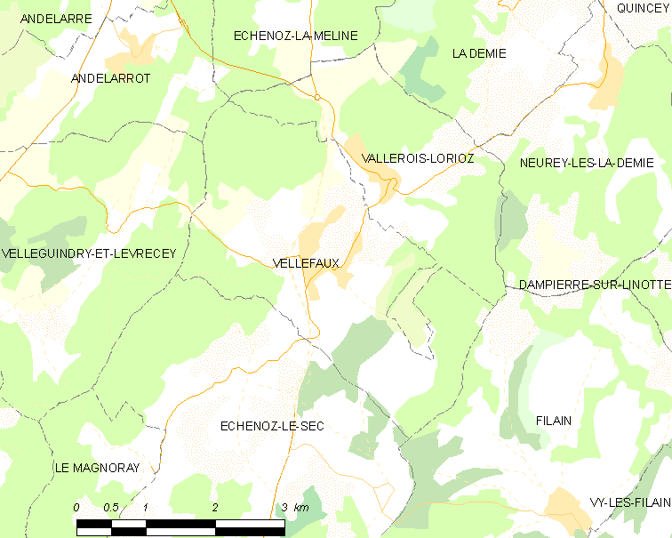 Map of French municipality